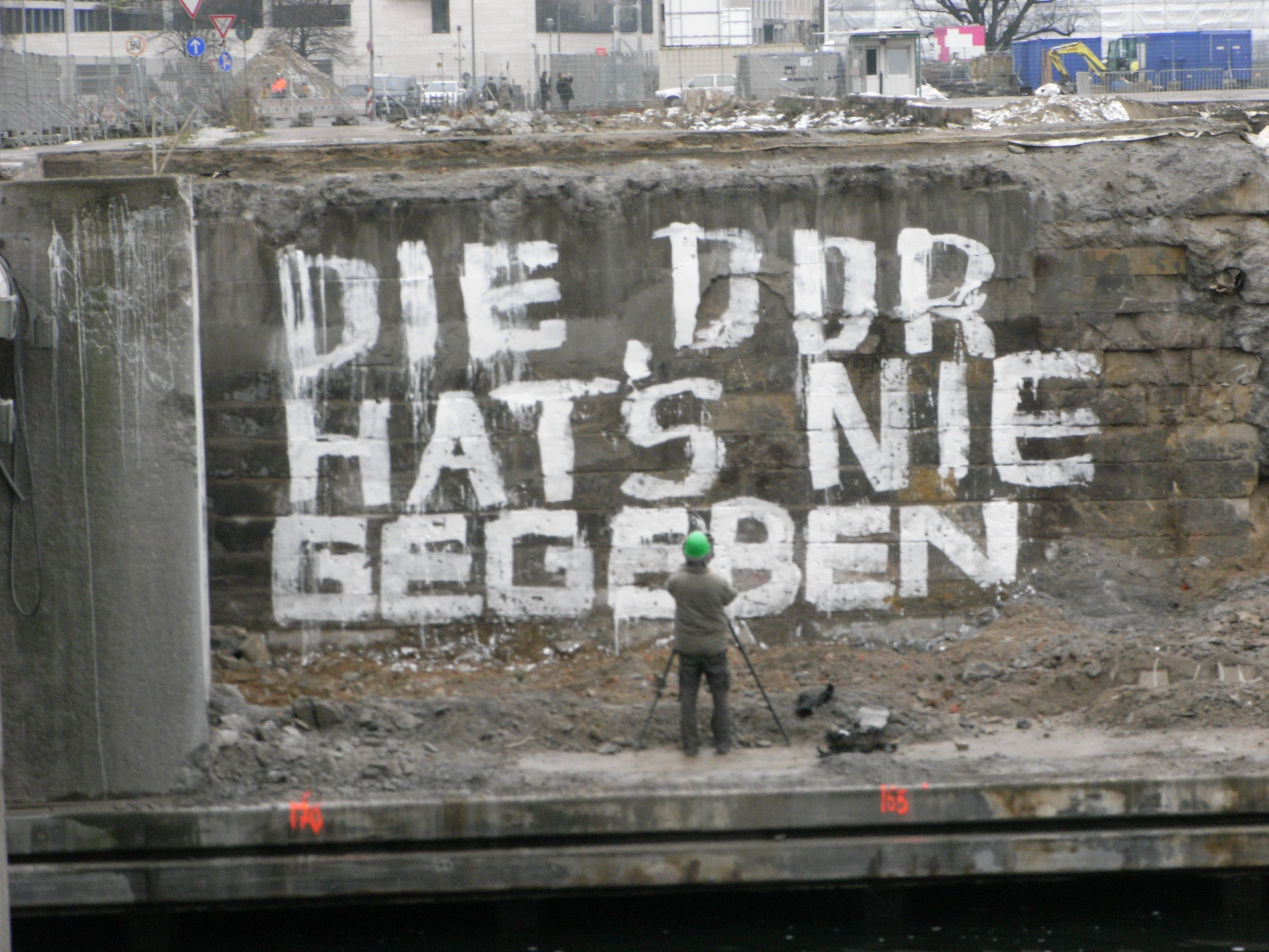 Graffiti at the former place of the Palace of the Republic, Berlin, saying: "The GDR never existed".